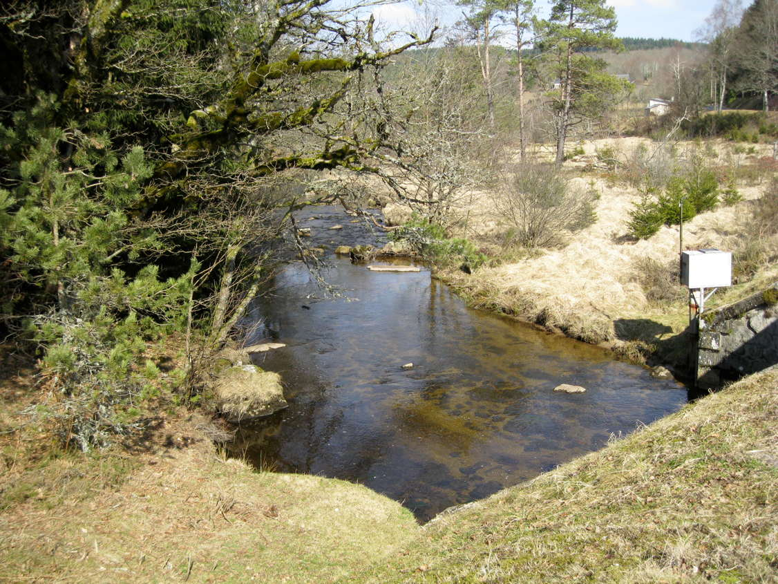 Downstream view of the Ars river from the bridge of road D78 between Pérols-sur-Vézère and Ars (Corrèze), at an altitude of 792m.